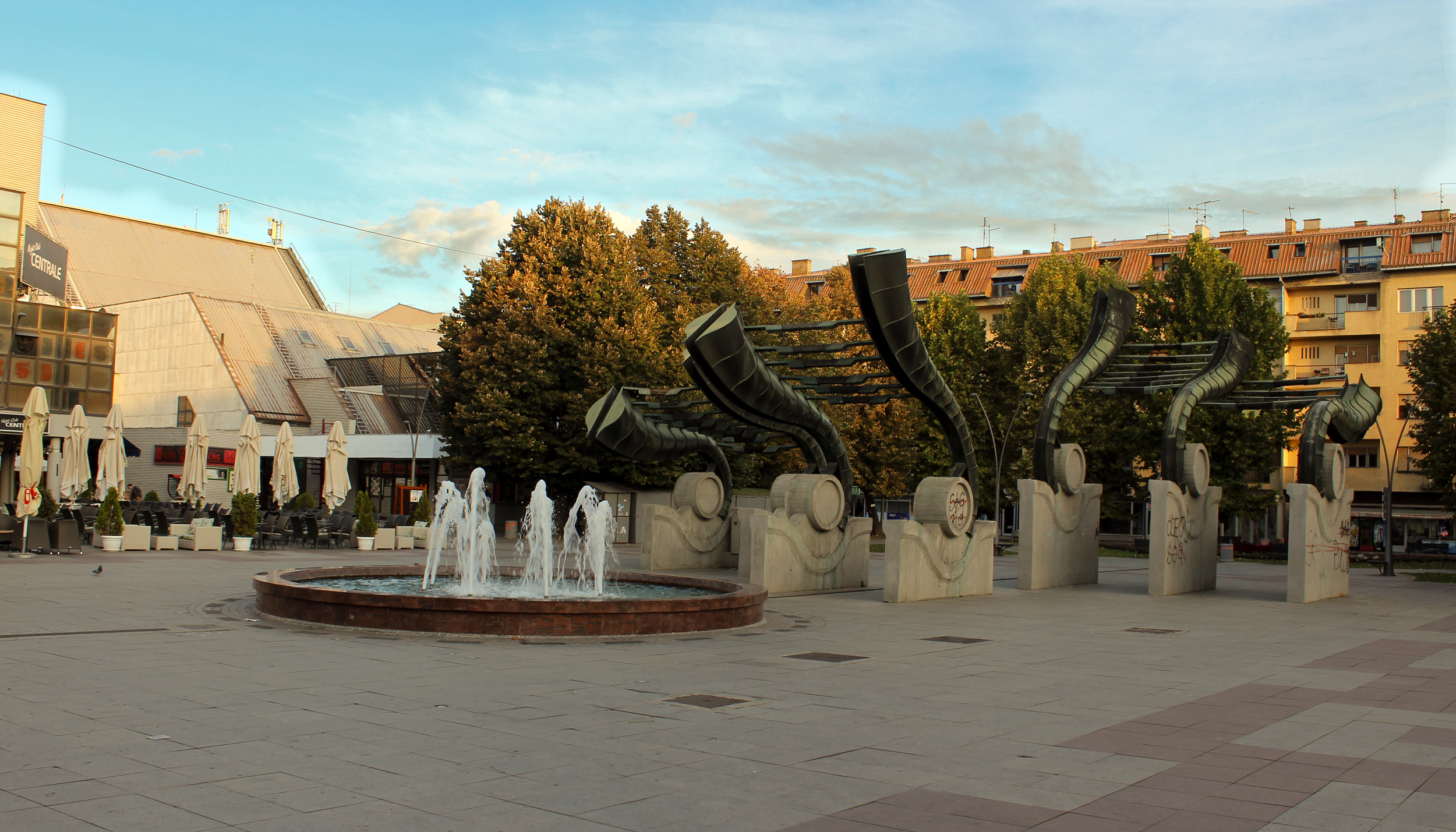 Photo of city square in Ruma taken in early September morning